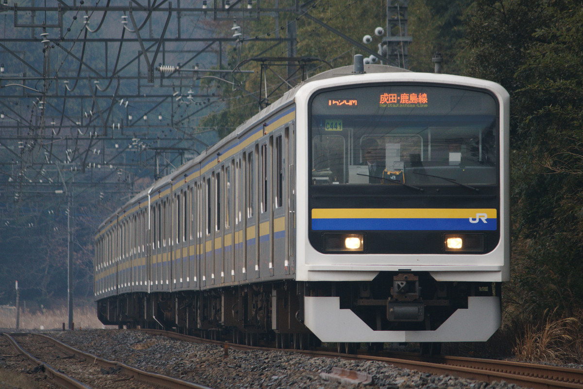 JR East 209-2000 series EMU on a Narita Line service